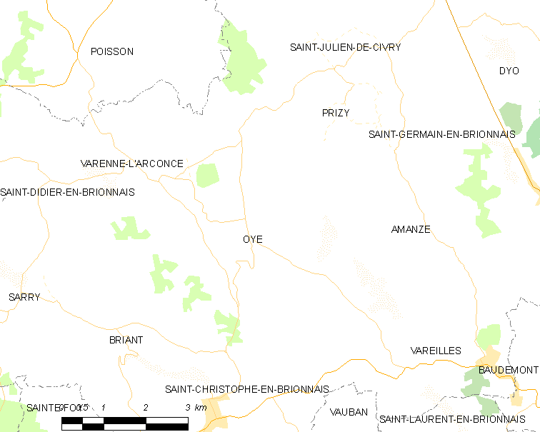 Map of French municipality